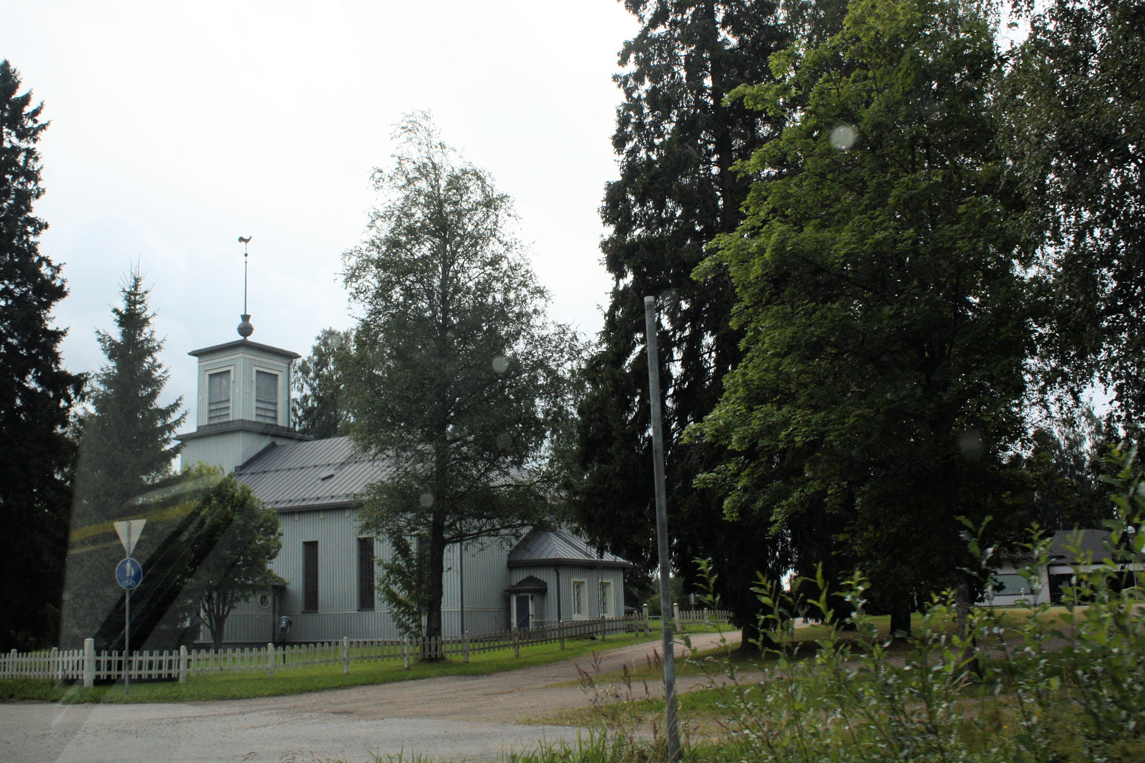 Pylkönmäki Church seen through a car window on Regional road 636